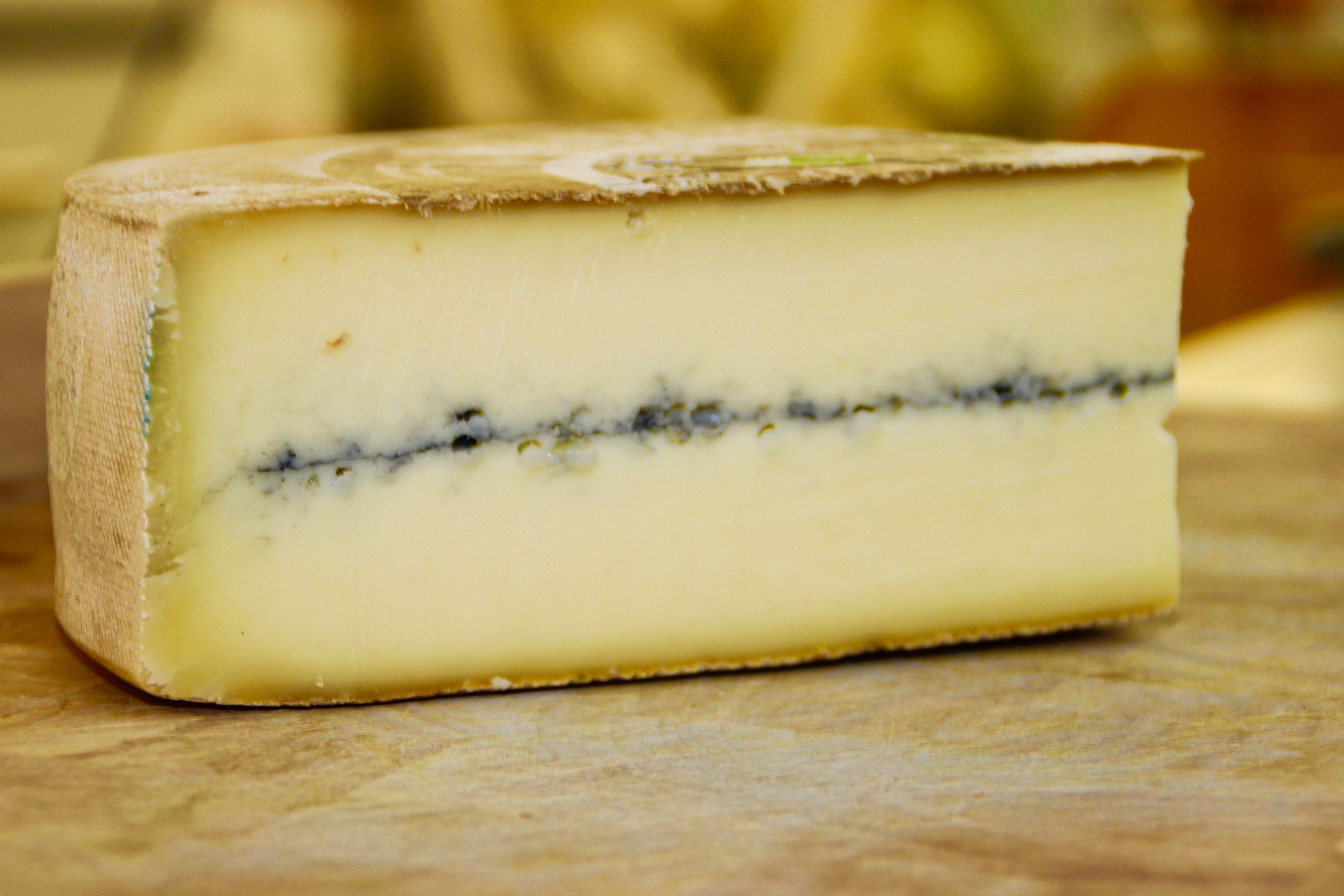 france cheese